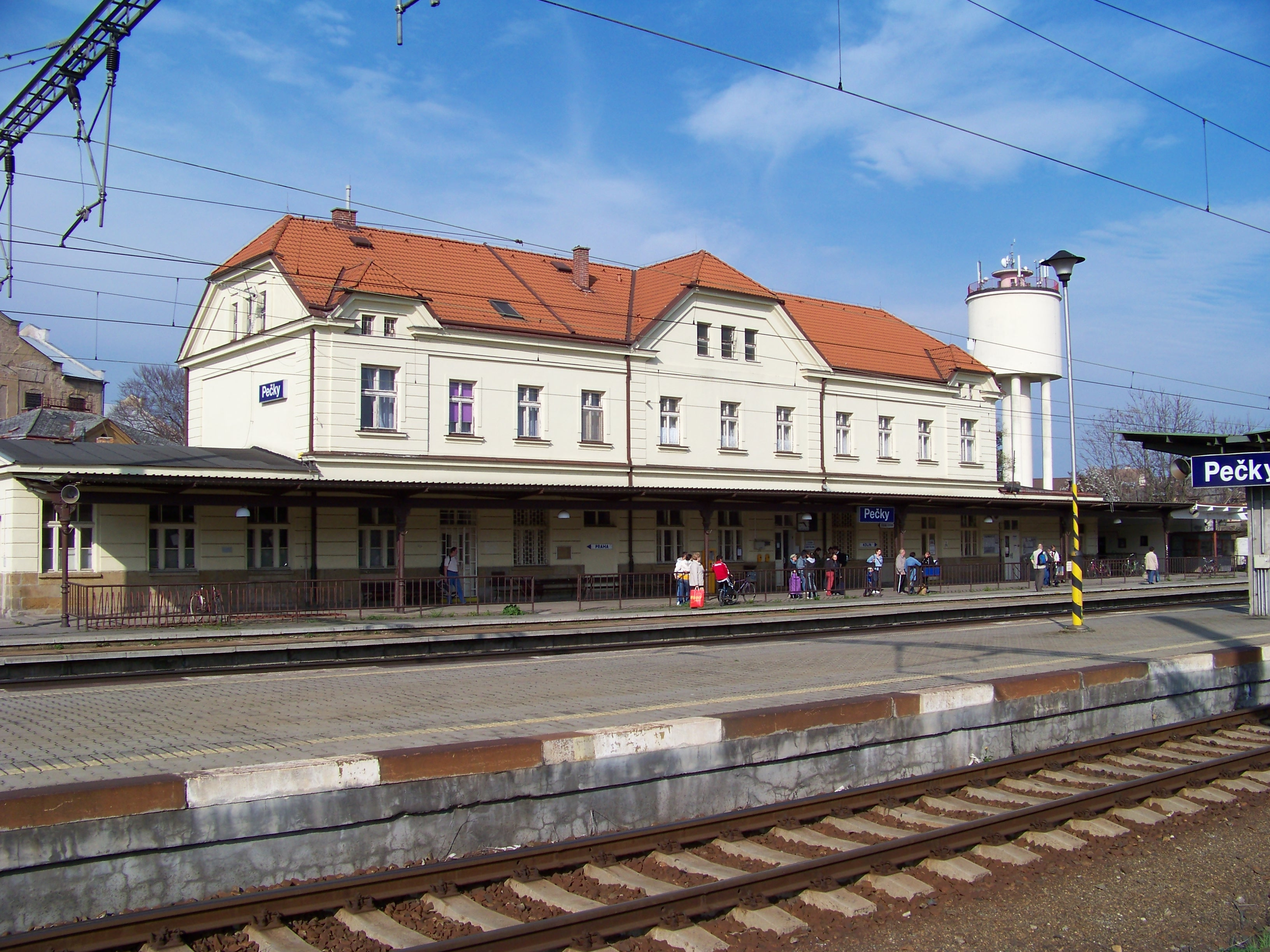 Pečky, Kolín District, Central Bohemian Region, the Czech Republic. The train station.